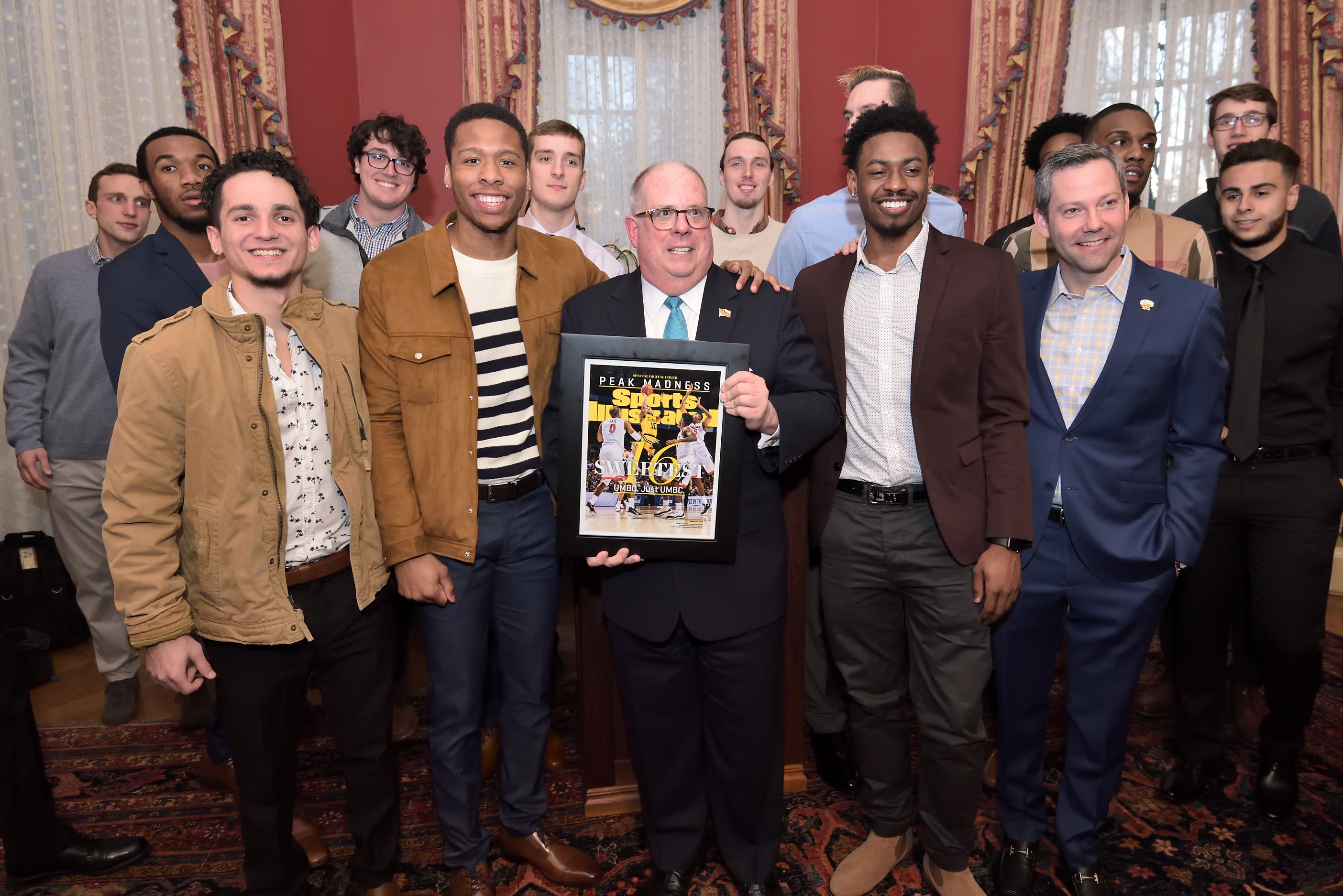 Governor Larry Hogan by Anthony DePanise at Government House, 110 State Circle, Annapolis, Maryland 21401